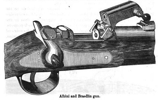 Mechanism of the Belgian single-shot Albini rifle from "Reports of the United States Commissioners to the Paris Universal Exposition, 1867: Published under direction of the Secretary of State by authority of the Senate of the United States"